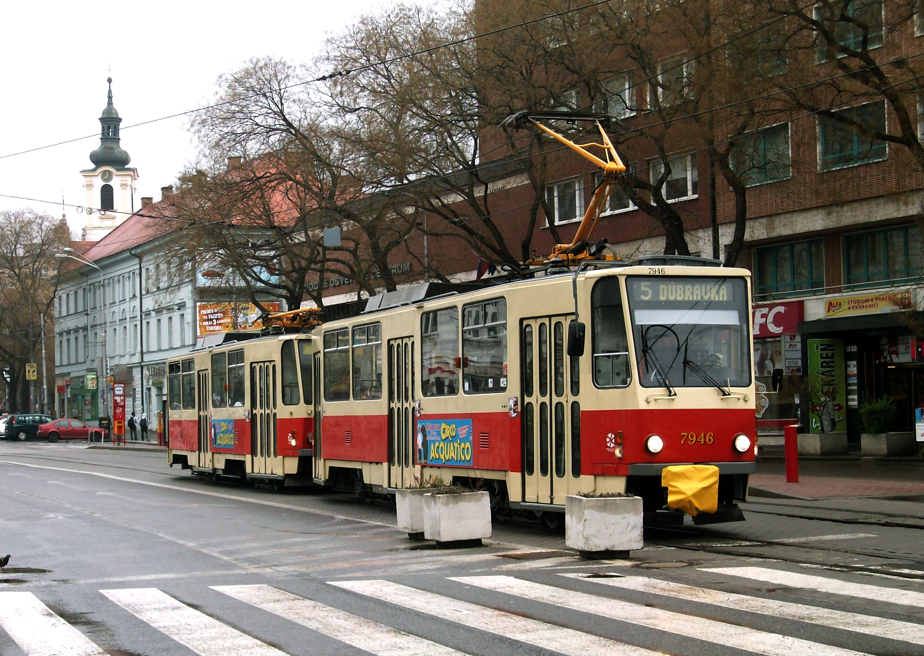 Tatra T6A5, Bratislava